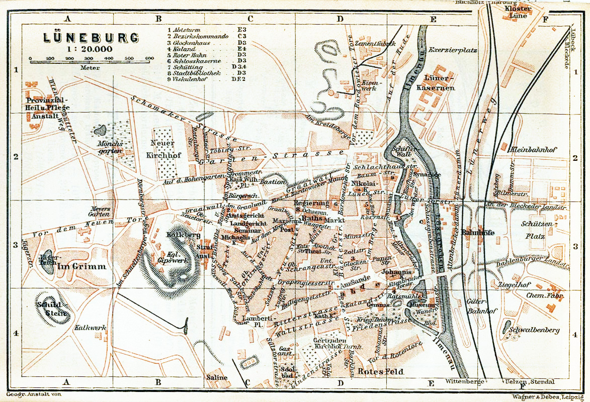 Town map of Lüneburg, Germany, 1910